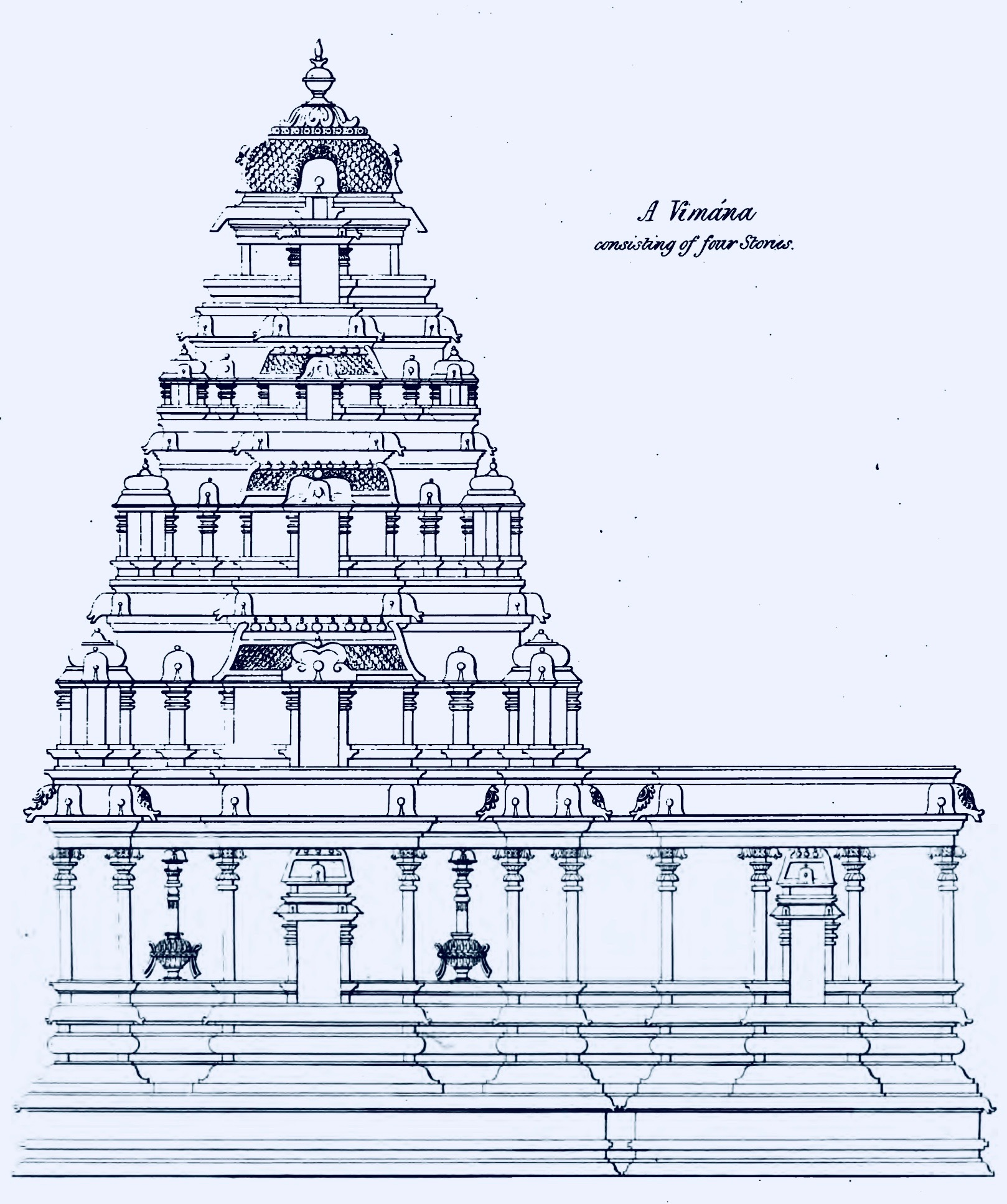 This is a photo of sketches made by Ram Raz and published in 1834. The source images can be found in Ram Raz (1834) Essay on the Architecture of the Hindus, Royal Asiatic Society of Great Britain and Ireland. A scholarly review of this source: Madhuri Desai (2012), Interpreting an Architectural Past Ram Raz and the Treatise in South Asia, Journal of the Society of Architectural Historians, Vol. 71, No. 4, pages 462-487